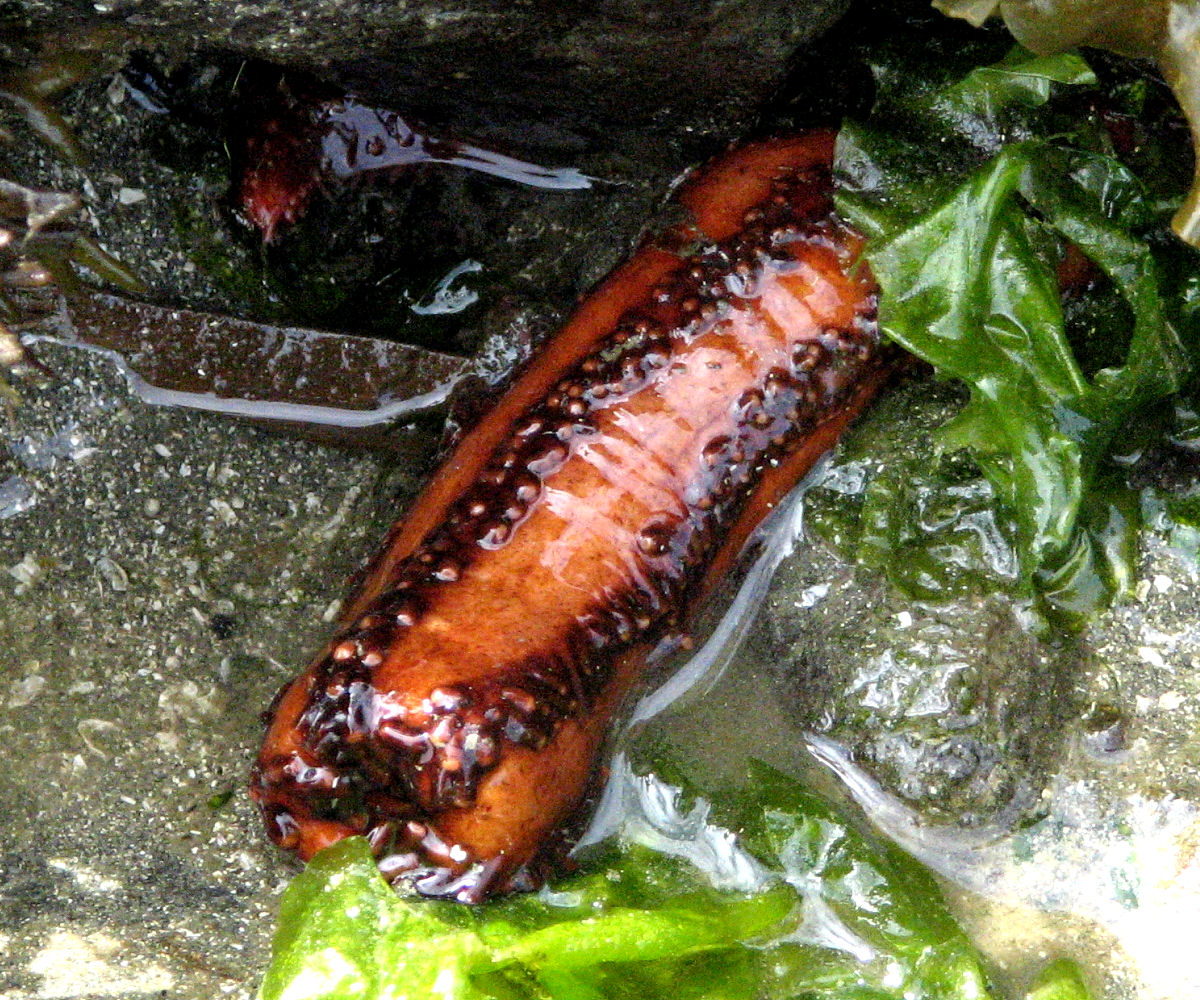 Orange sea cucumber (Cucumaria miniata), Salt Spring Island, British Columbia, Canada